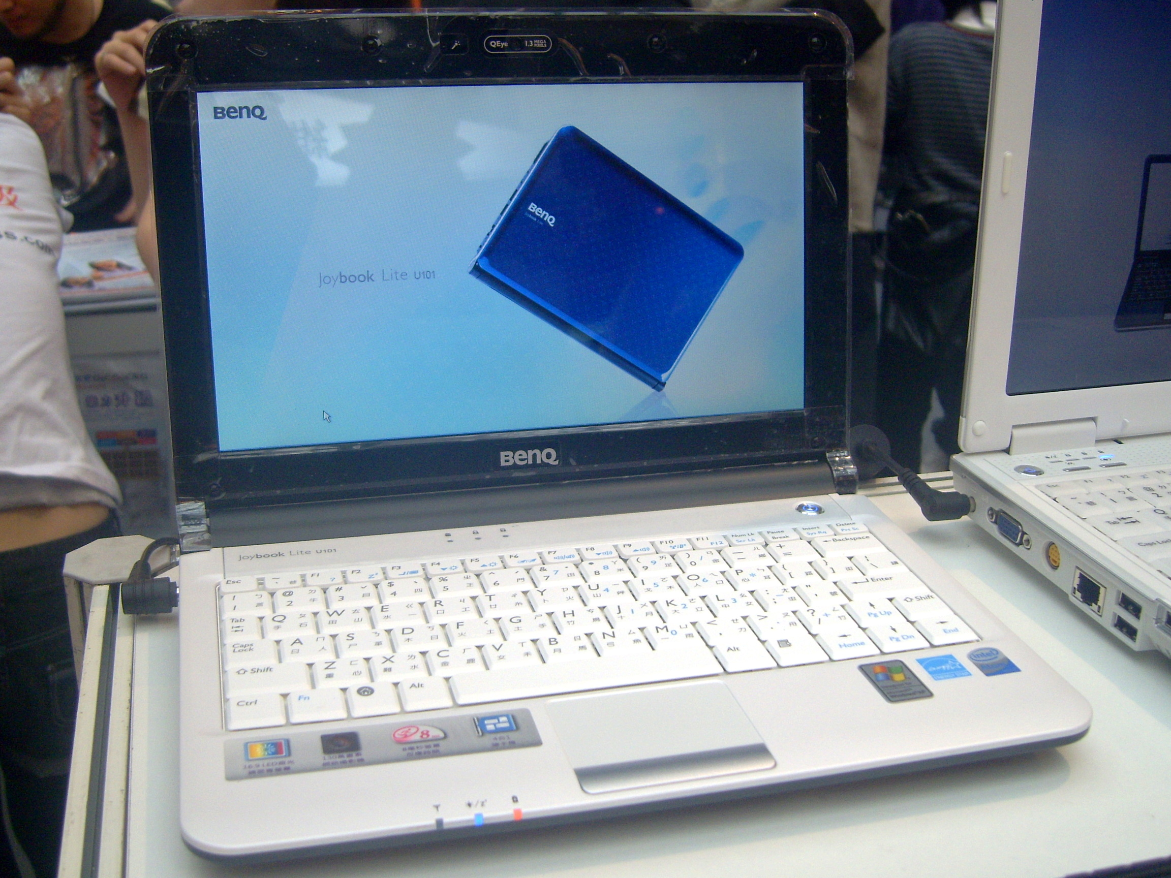 2008 Taipei IT Month: BenQ Joybook U101.